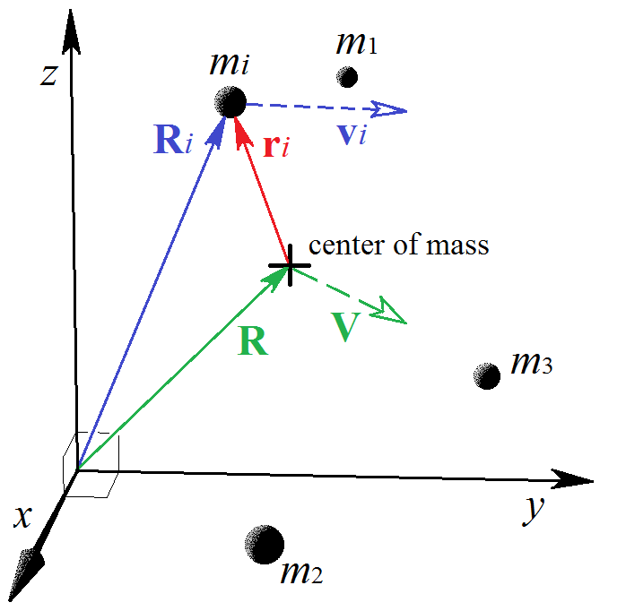 Vector diagram of angular momentum in a multi-particle system, referred to rectangular axes and to the center of mass of the particles.